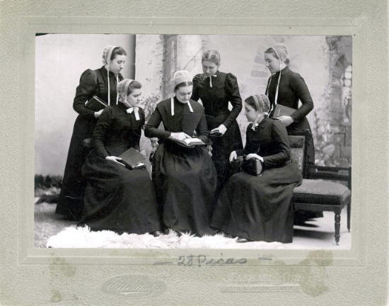 Back Row, L-R: Lavonna Berkey (Ebersole), Addie Brunk, and Elsie Kolb (Bender) Front Row, L-R: Barbara Blosser, Minnie Stauffer, and Anna Holdeman (Miller) These women are members of Prairie St. Mennonite Church and are illustrating plain Mennonite clothing. Photo taken for the "Chicago Chronicle" and appeared in the January 3, 1904 issue. Photographer: E. M. Mudge, Elkhart, Indiana. Citation: Phoebe Mumaw Kolb Photographs, HM4-162. Box 2, Folder 3. Mennonite Church USA Archives - Goshen. Goshen, Indiana.